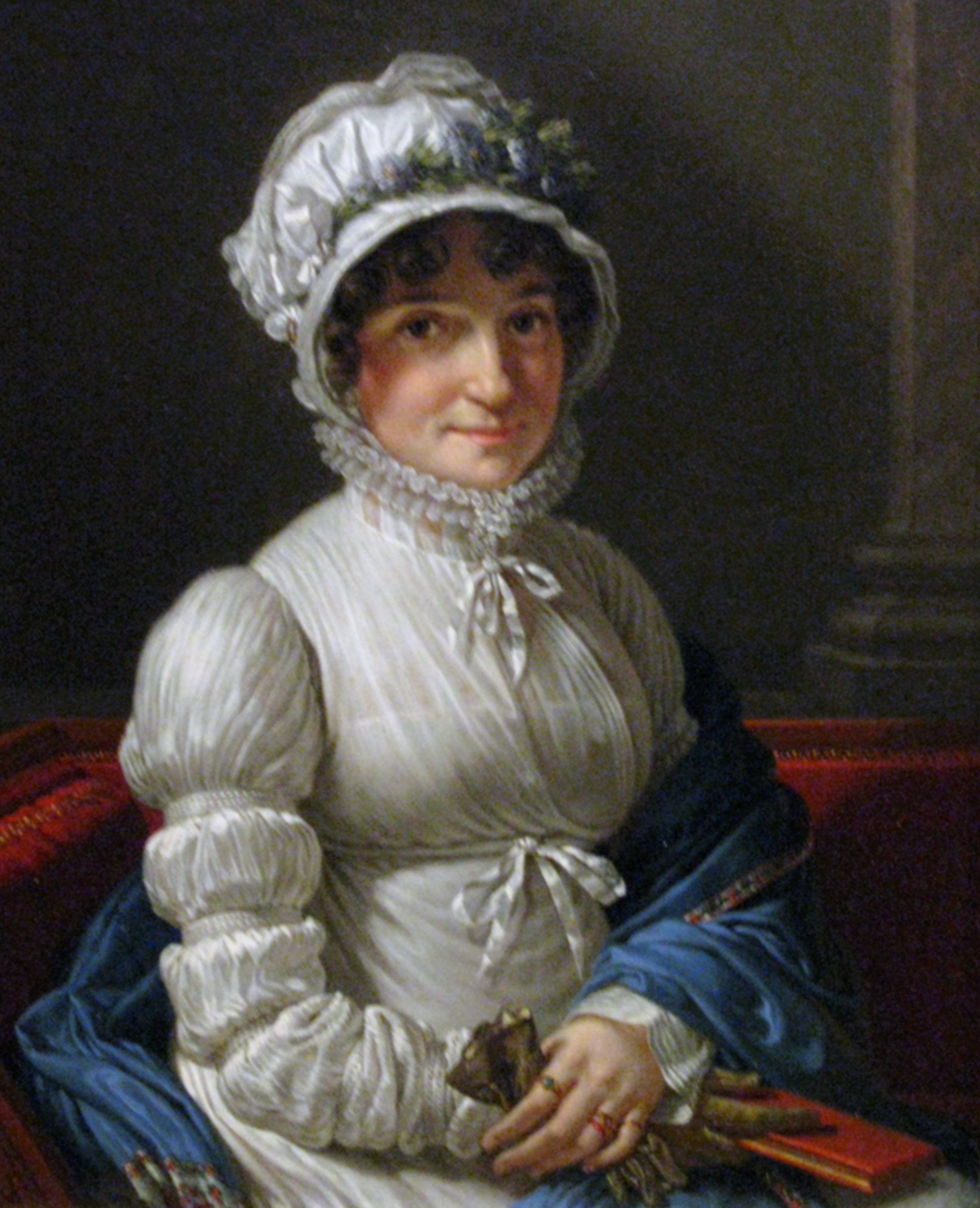 Dorota Czartoryska née Jabłonowska